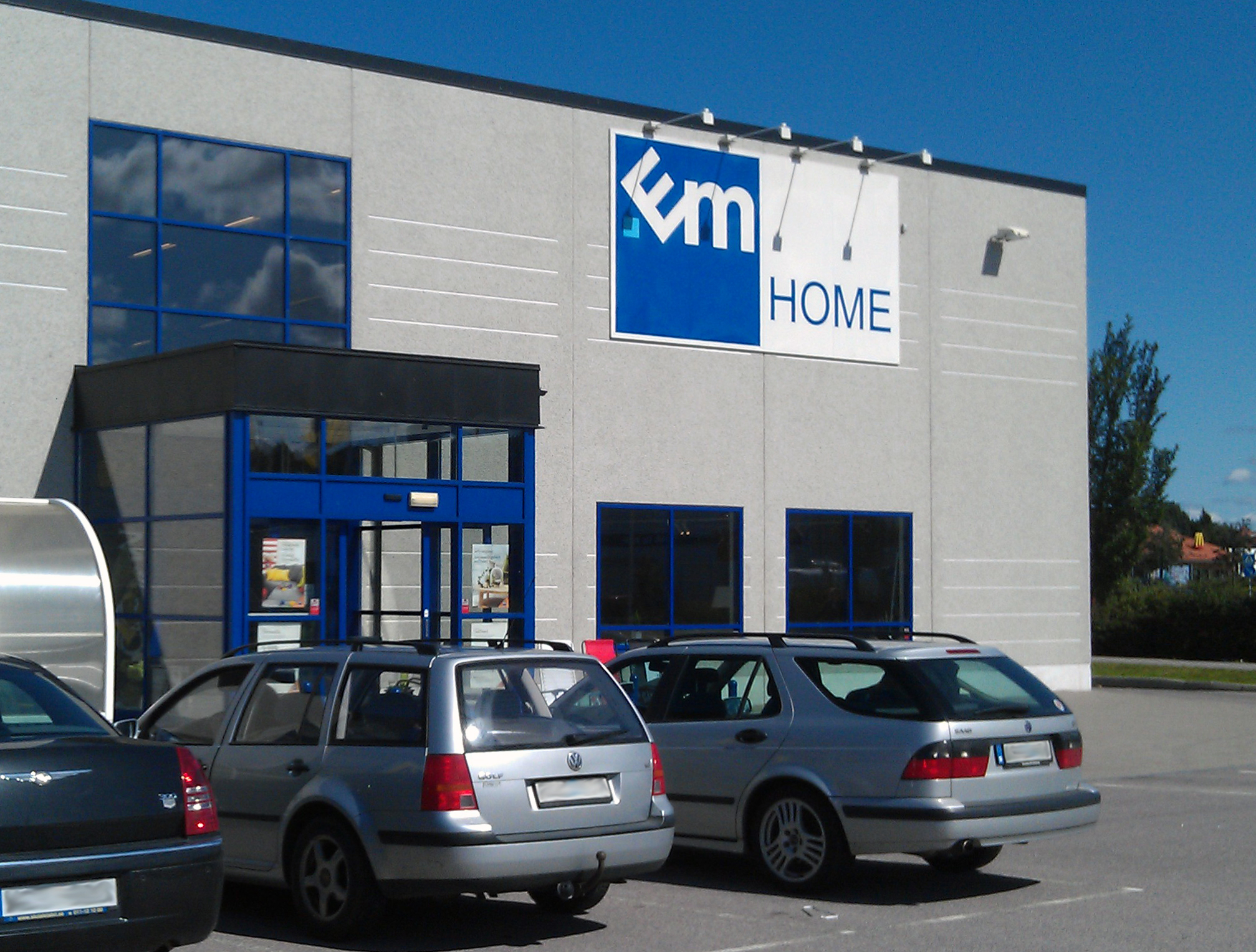 EM Home (Europa Möbler) in Varberg, Halland, Sweden.